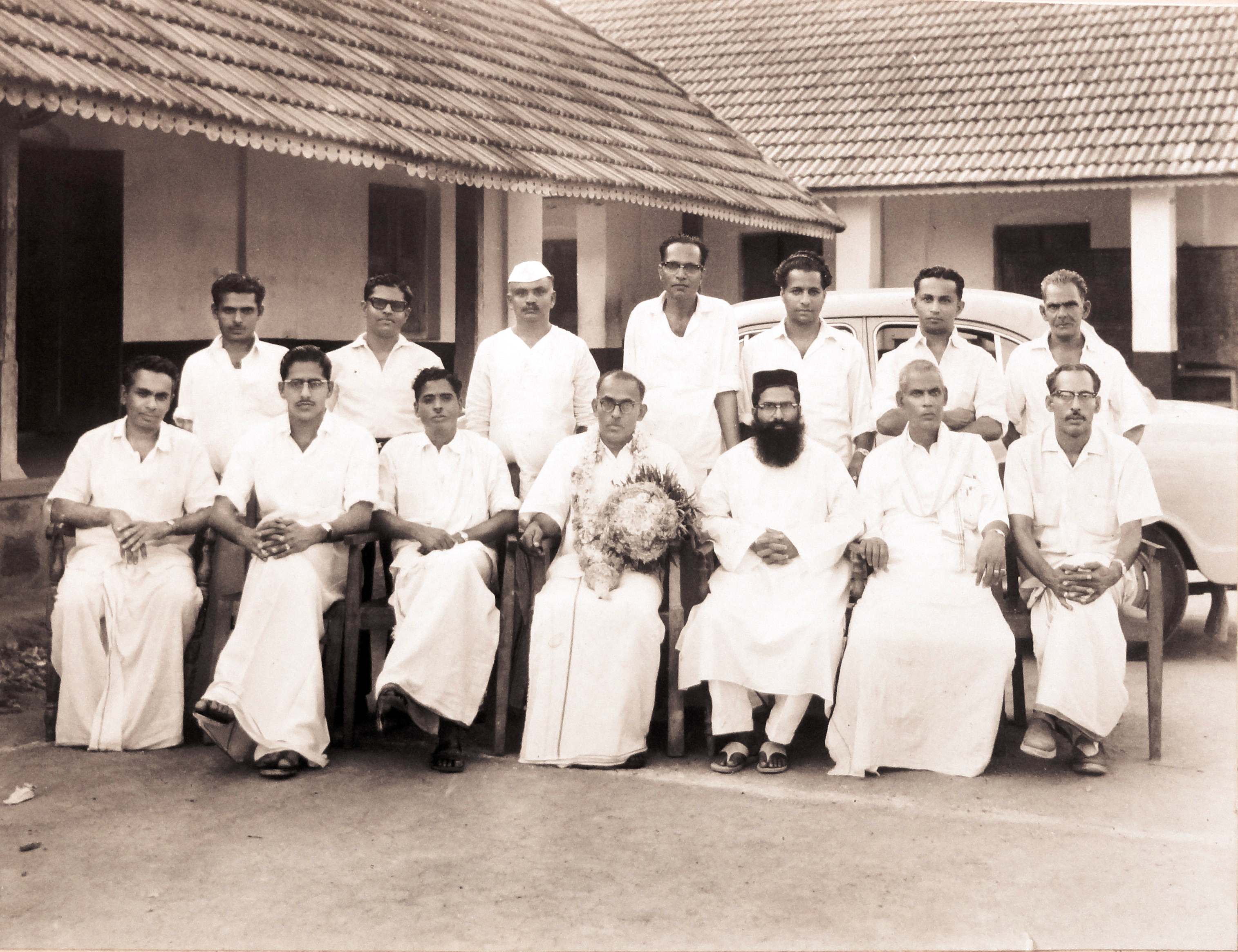 Photo taken on the occasion of the Retirement of Sri. M. O. George, Head Master, G. S. S., Meenangadi, on 31-3-1966. Sitting left to right 1. O.T. K. Nambiar, 2. P. S. Mani, 3. K. Balakrishan Nair, 4. M. O. George, 5. Very. Rev. Poomattathil V. Poulose Corepiscopa, 6. M. V, Ananthanarayana lyer, 7. Kaniyampadikkal.O. Varghese. Standing 1. S. A. Majeed, 2. Dr. Kuriakose Shalem Mandiram, 3. M. P. Narayanan Nair, 4. K G Madhavan Nair, 5. P. C. Damodaran, 6. K. Karunakaran Nair 7. V. Ummer. Digitized this Photo using a camera, taken from my family photo album archives. Special Thanks to Baby Thankappan Sulthan Bathery